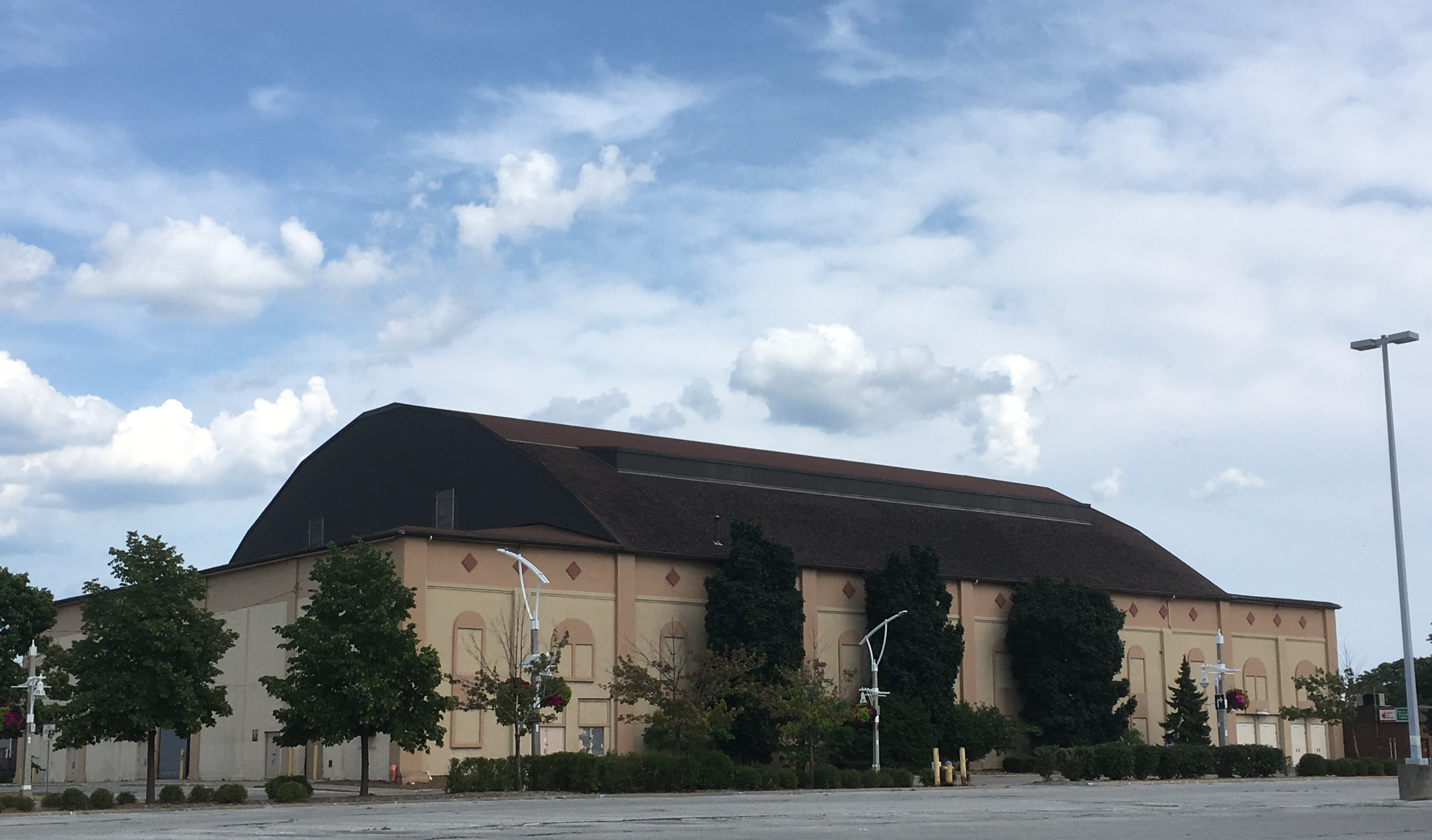 Windsor Arena, old home of the Windsor Spitfires and Detroit Red Wings